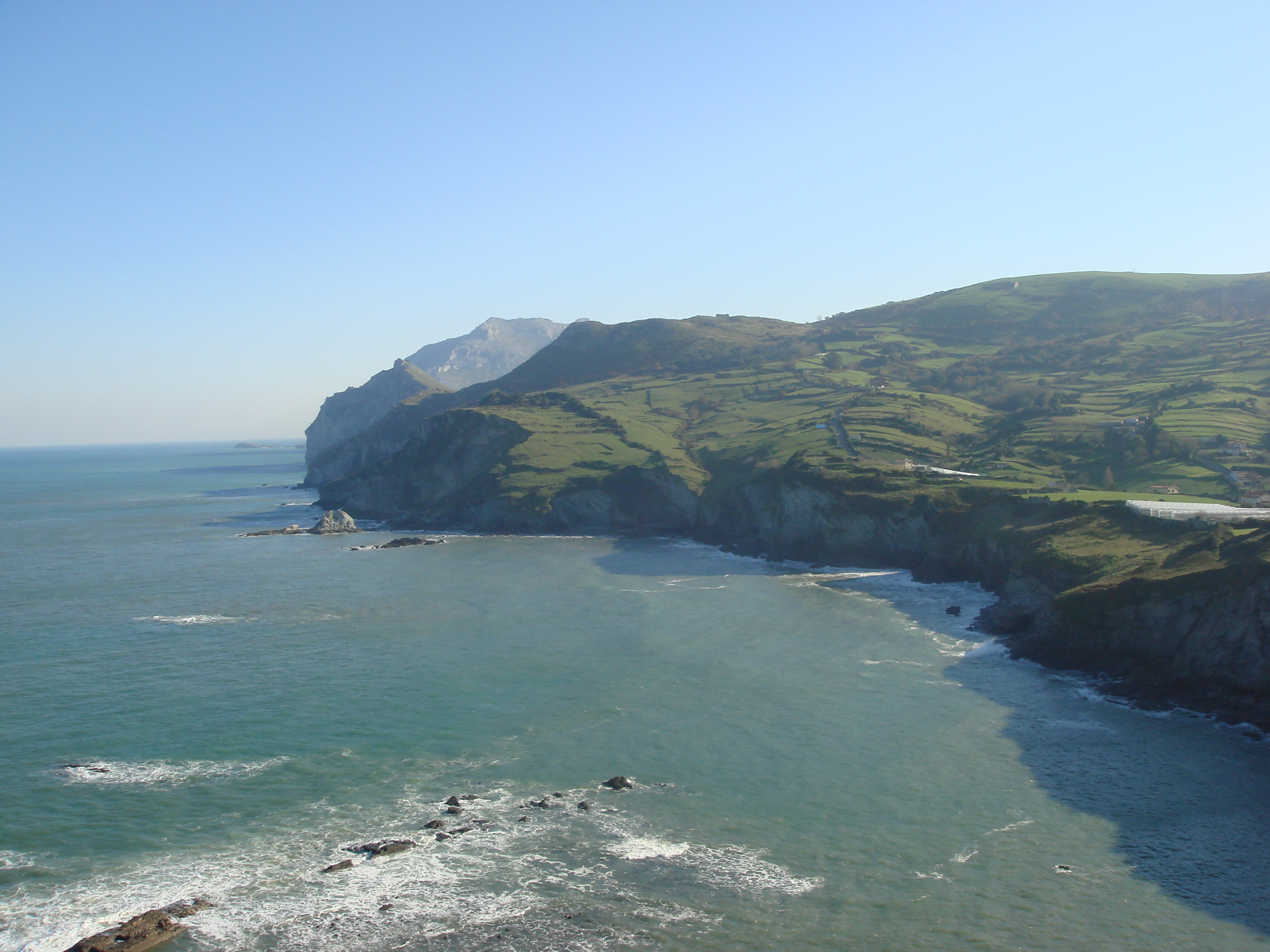 costa cántabra desde la atalaya (laredo)